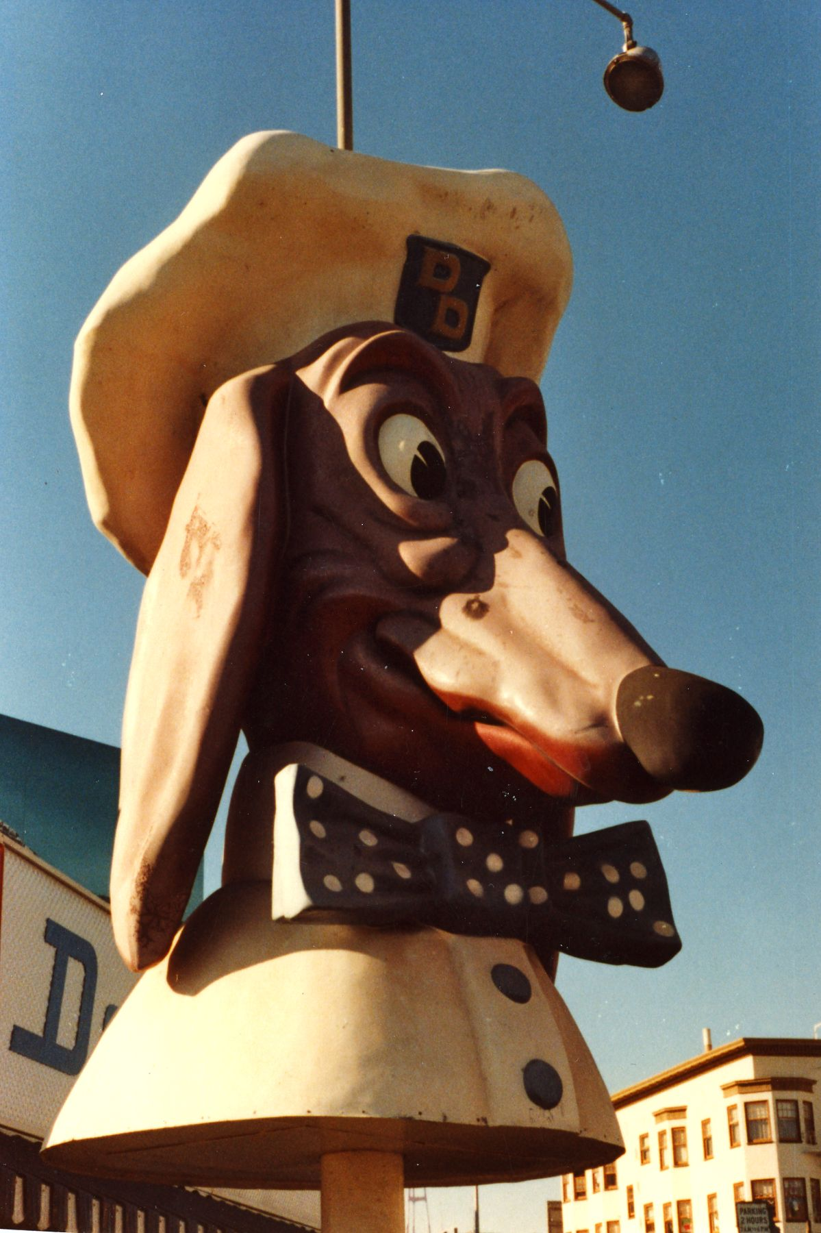 This is one of the Doggie Diner heads that were featured in San Francisco fast-food restaurants. This one was probably on Market Street near Castro. Other information Photo by George Garrigues.